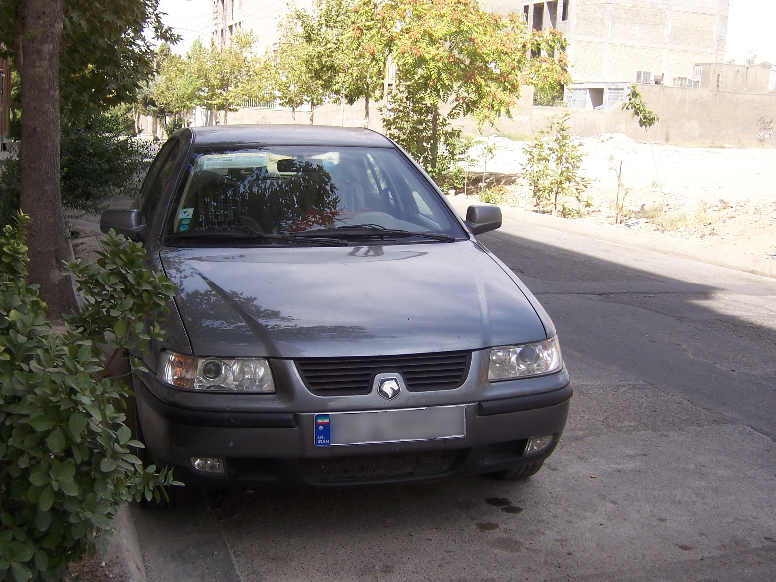 I took this picture in summer 2006.